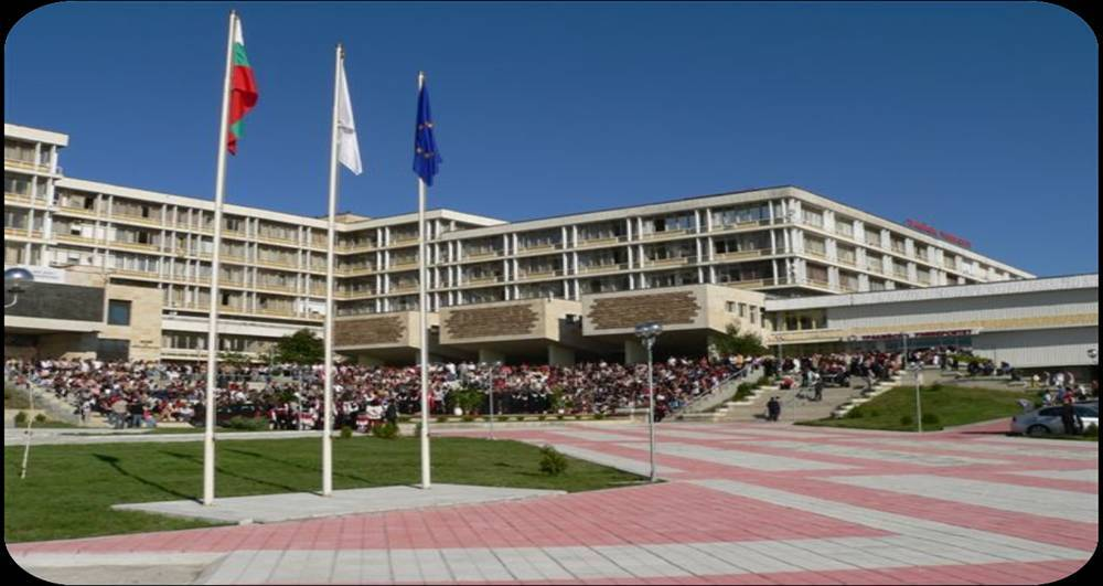 Forum - the place where all students and lecturers can be together